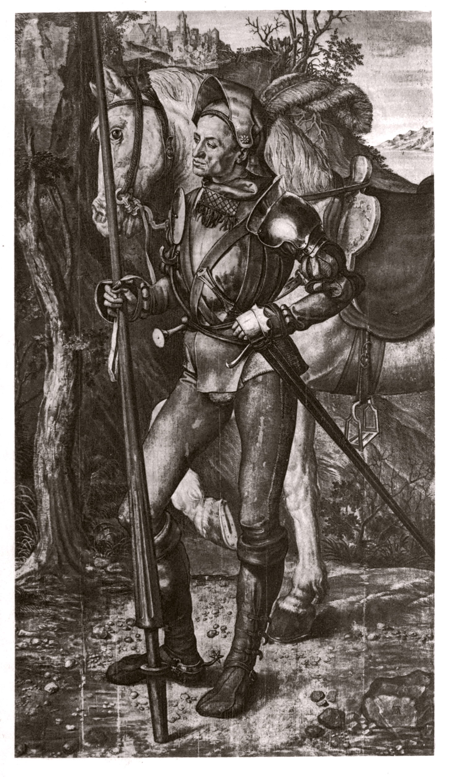 Portrait of Franz von Sickingen by Albrecht Dürer, copied by an unknown nineteenth-century engraver